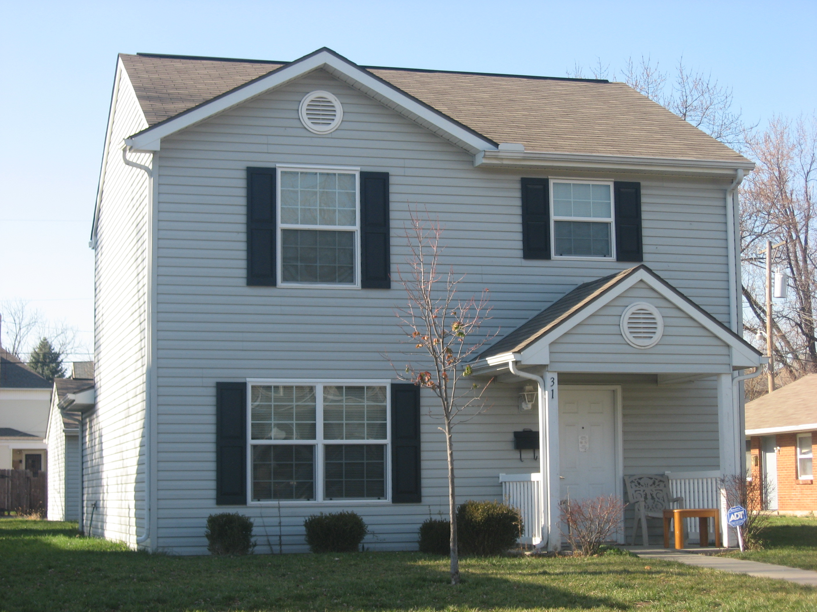 Front and southern side of the house located at 31 S. Jersey Street in Dayton, Ohio, United States. This lot was once occupied by the Dayton Fire Department Station No. 16, which was listed on the National Register of Historic Places in 1980; despite its destruction, it has not yet been removed from the Register.